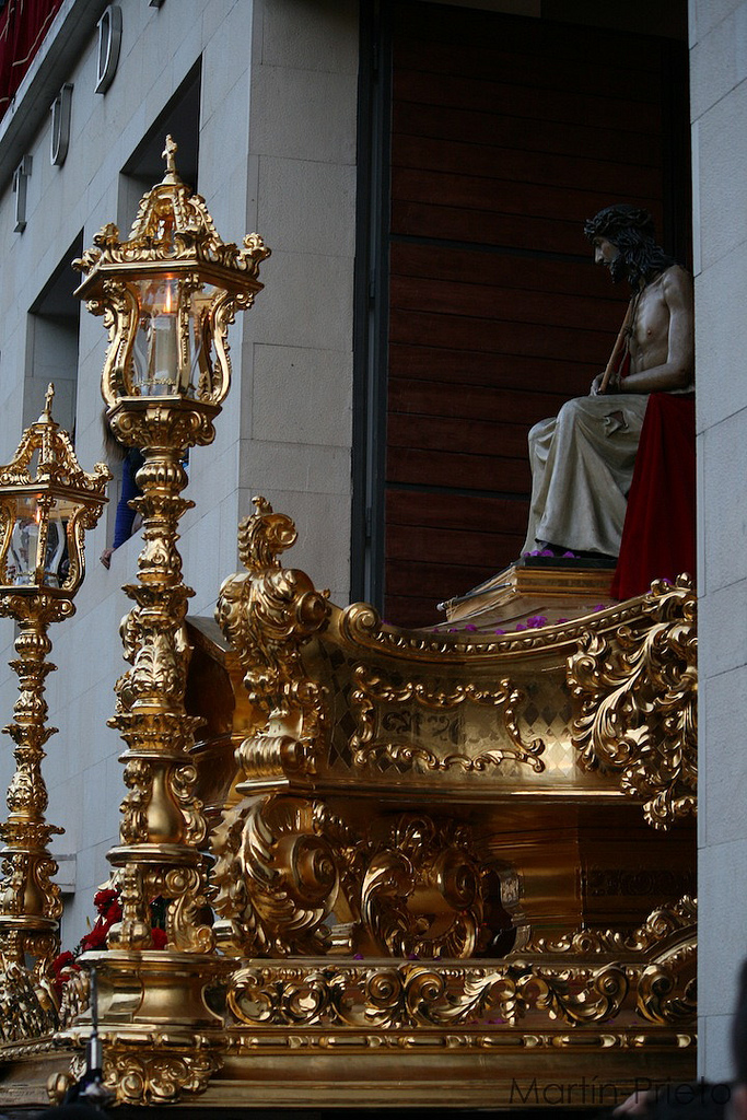 Holy Week in Málaga, Spain